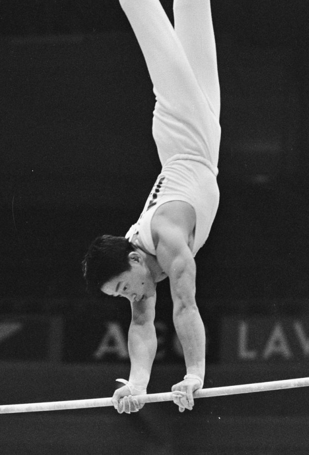 Takashi Mitsukuri at the 1966 World Championships